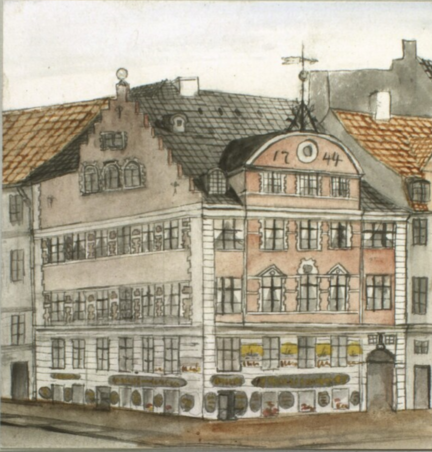 Nyhavn 40, corner with Toldbodgade, in Copenhagen, Denmark